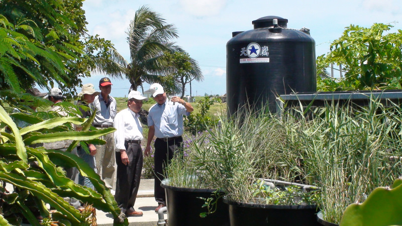 The water system of dujia country.